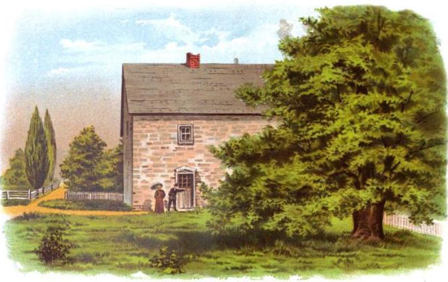 Engraving of Fort Deshler as it appeared in en:1895